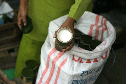 Dadiah, traditional West Sumatran water buffalo yogurt